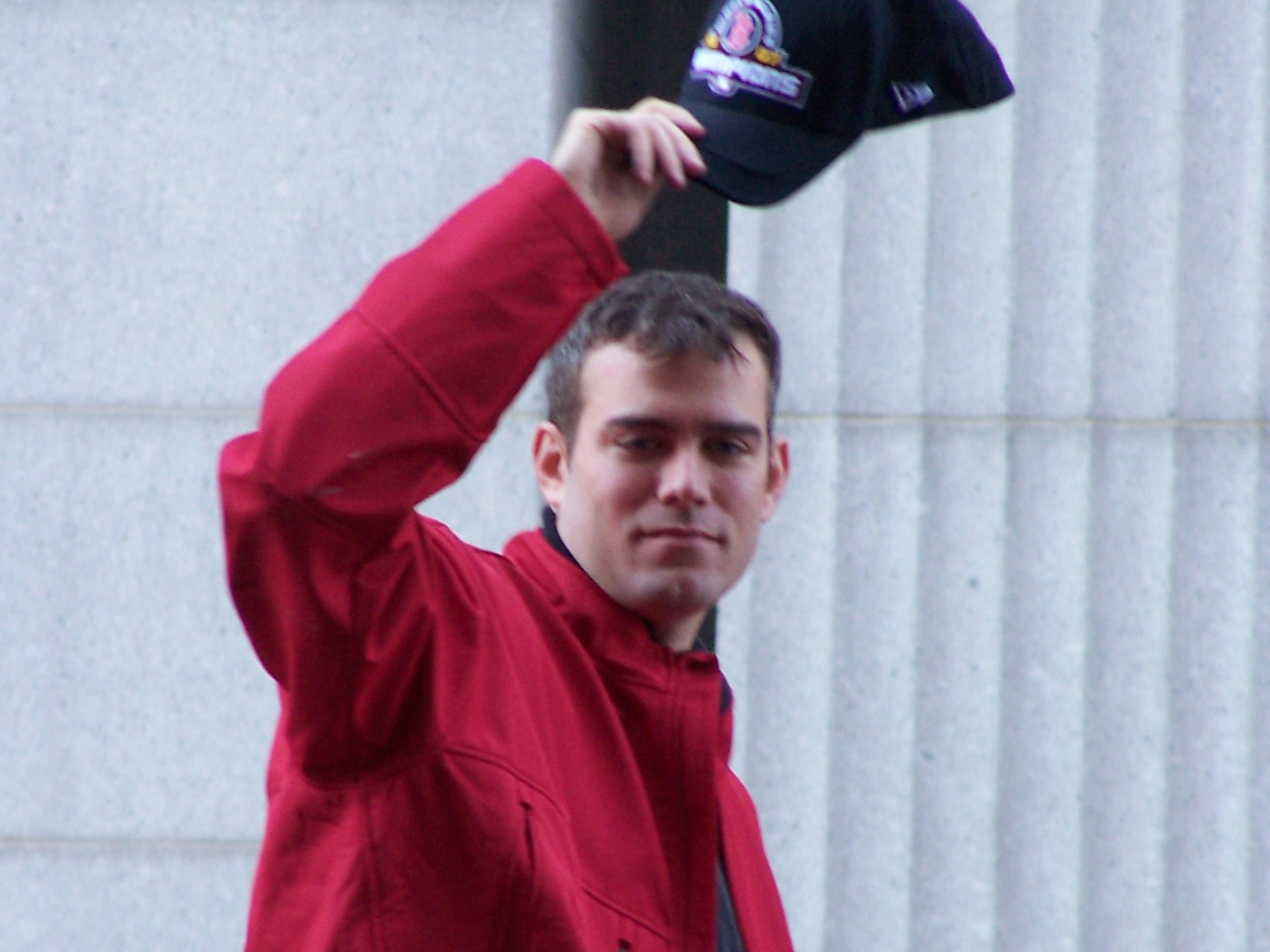 This is a picture I took of Red Sox General Manager Theo Epstein during the 10/30/2007 parade celebrating the Red Sox win in the 2007 World Series. He is riding atop a DUKW boat. Uploaded for use on the Theo Epstein page. 16:40, 31 October 2007 . . Hardnfast . . 2,576×1,932 (425 KB)